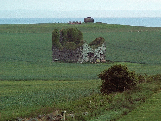 Remains of Corsewall Castle Picturesque 15th century ruin.